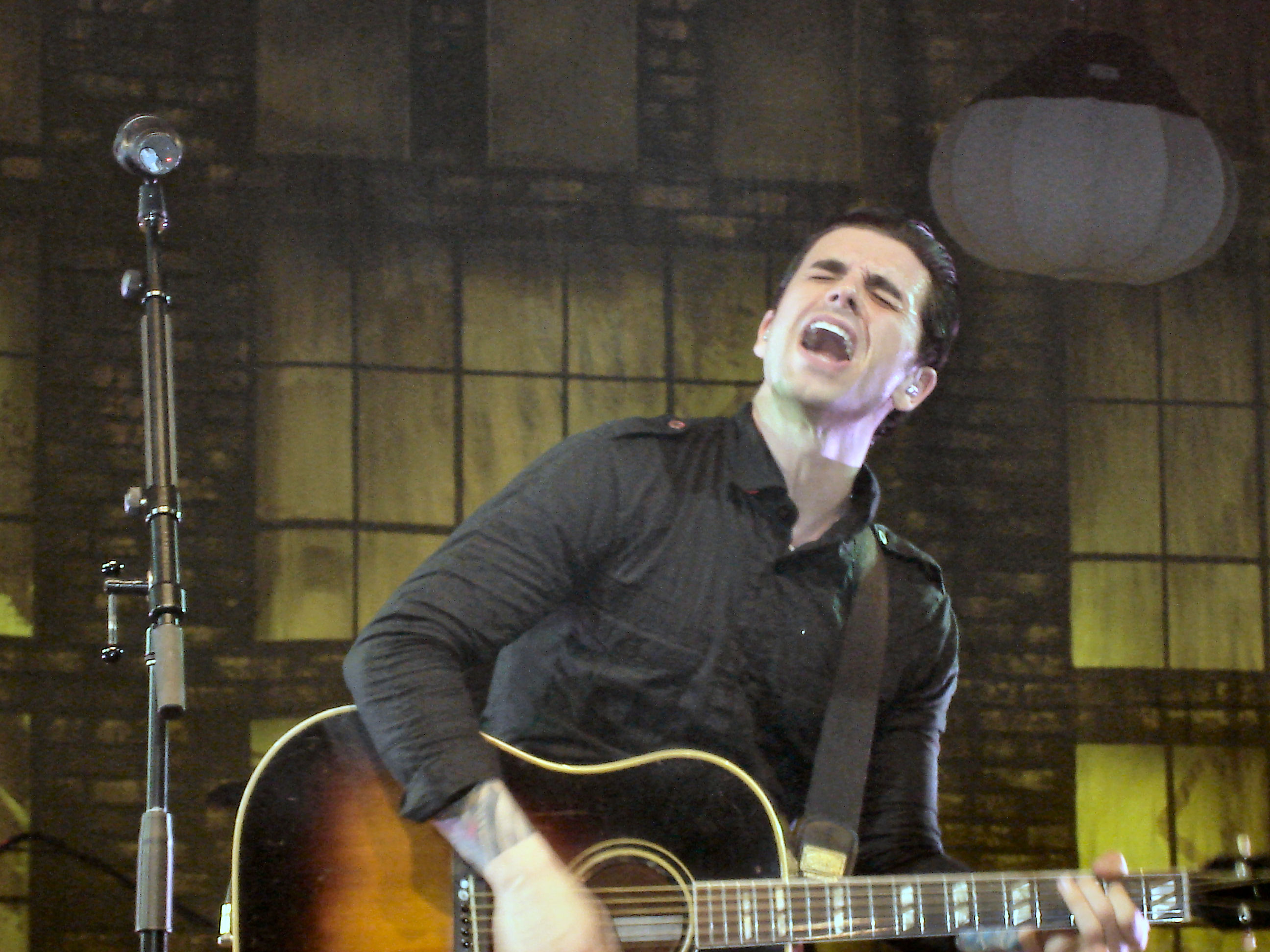 Chris Carrabba of Dashboard Confessional. This picture was taken in Toronto in Dec 2006.